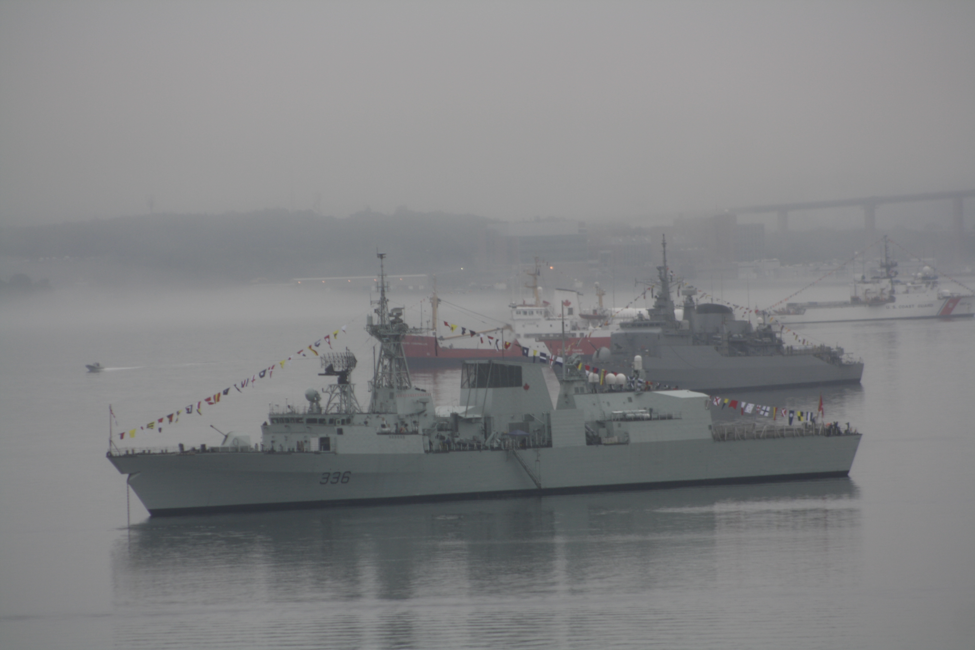 HMCS Montreal (FFH 336) in Bedford Basin for IFR 2010